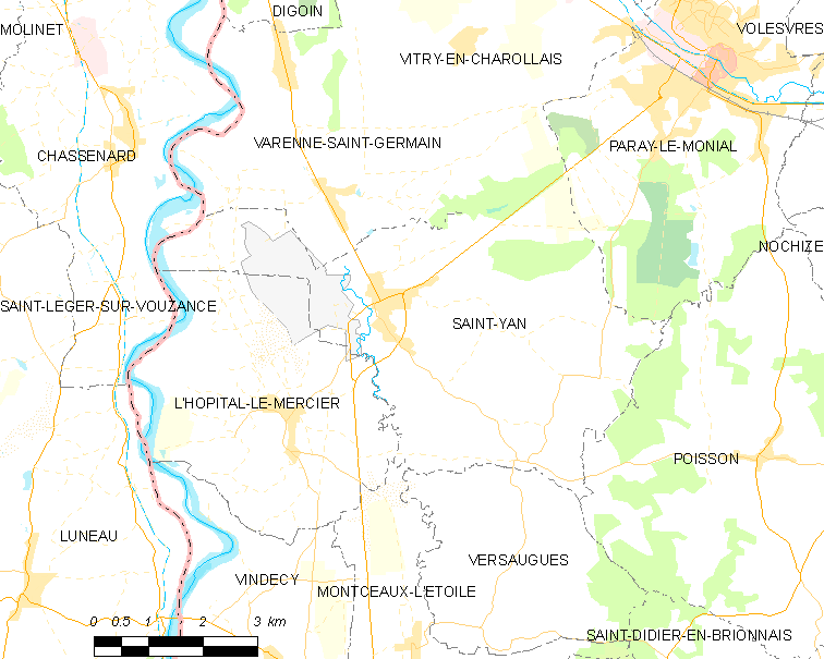 Map of French municipality